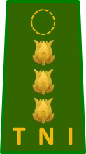 Colonel rank insignia that used on daily uniforms of Indonesian Army